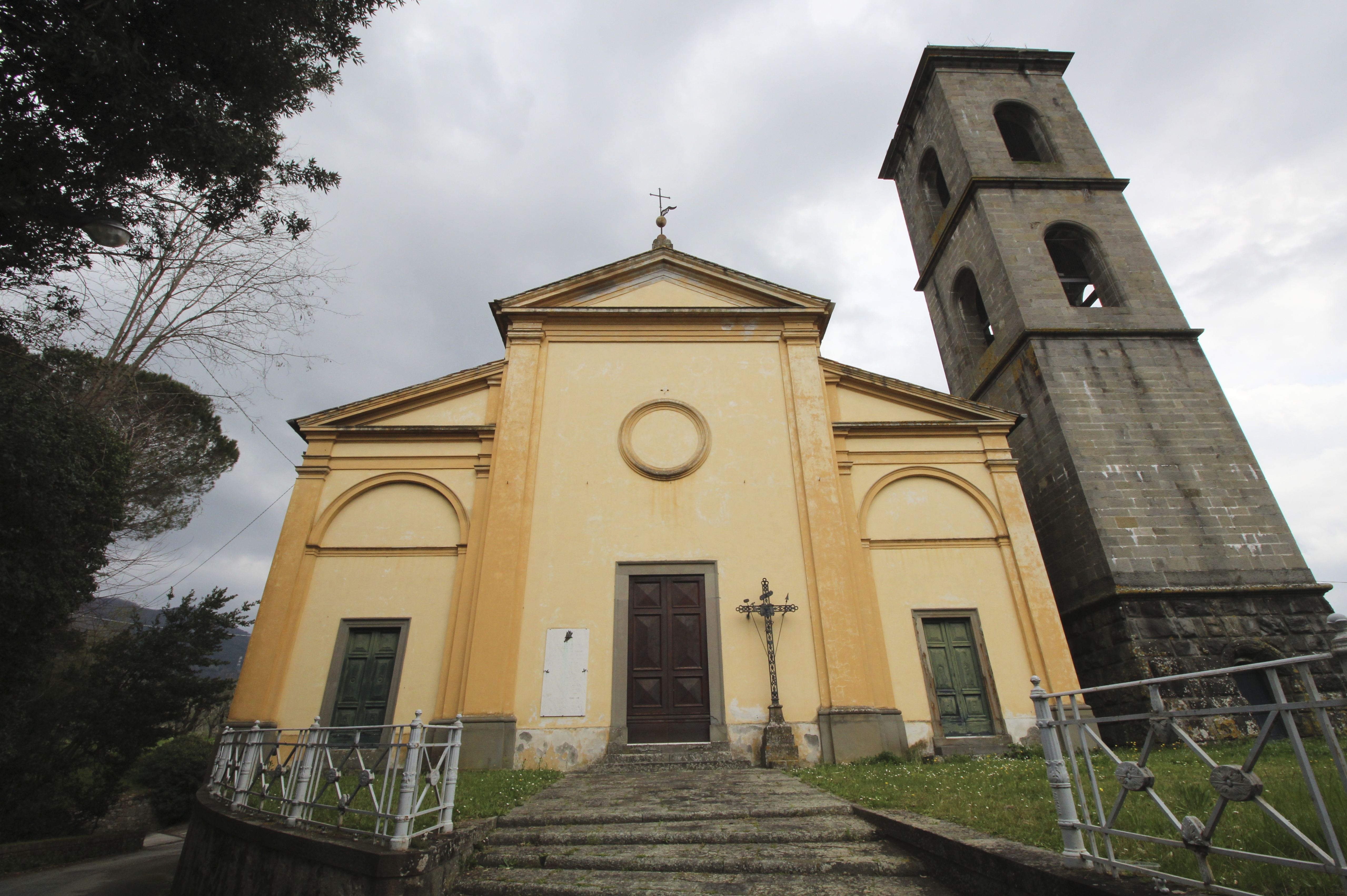 Church San Colombano di Segromigno, San Colombano, hamlet of Capannori, Province of Lucca, Tuscany, Italy